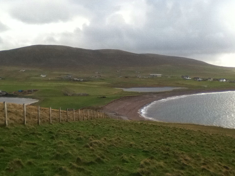 Looking down on Sandness